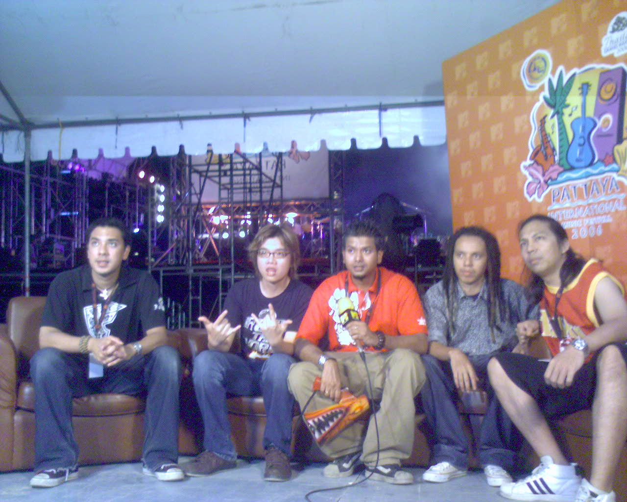 Pop Shuvit (Malaysian Band) at Pattaya Music Festival, Thailand